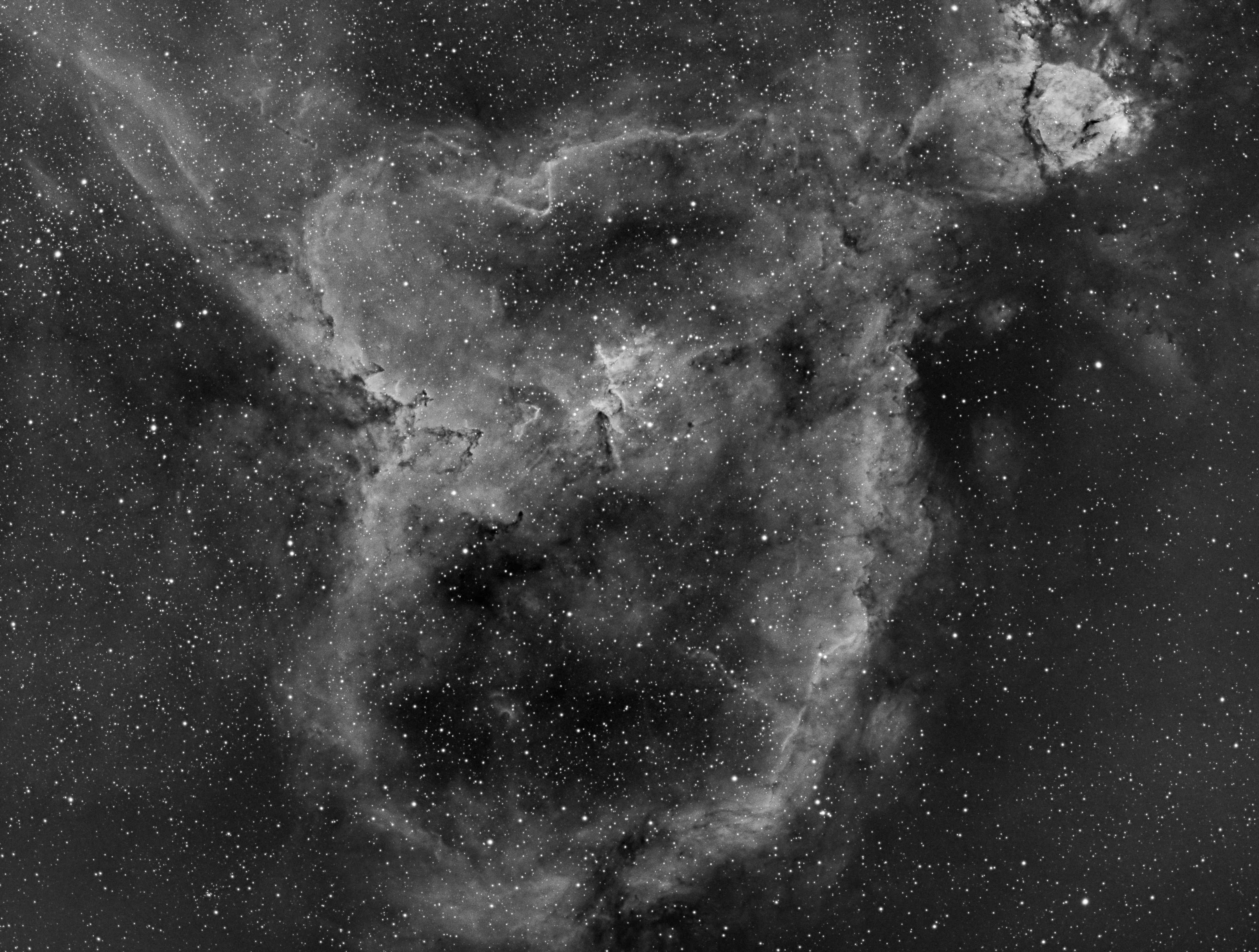 This is the Heart Nebula. It was created using 6 hours worth of exposure time with an H-alpha filter. More info below: Imaging Telescope: Orion ED80T CF (384 focal length) Focal Reducer: f/.8 Mount: Celestron CGX Polar Alignment: QHYCCD PoleMaster Imaging Camera: ZWO ASI1600MM-Cool Filters: Ha=120x180s Total Exposure Time: 6 hours Gain: 139, Offset: 21 Guide scope: Orion ST80 Guide Camera: Lodestar X2 Guide Software: PHD2 Calibration Frames: Darks: 50, Bias: 50, Flats: 50 Capture software: Sequence Generator Pro (SGP) Stacking software: PixInsight Post Processing: PixInsight Dew Shield, Dew Heater Strip